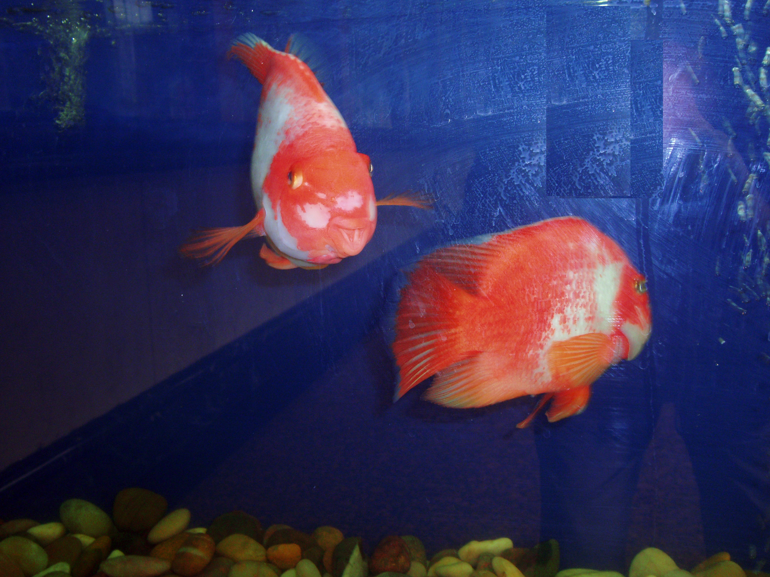 Blood parrot fish